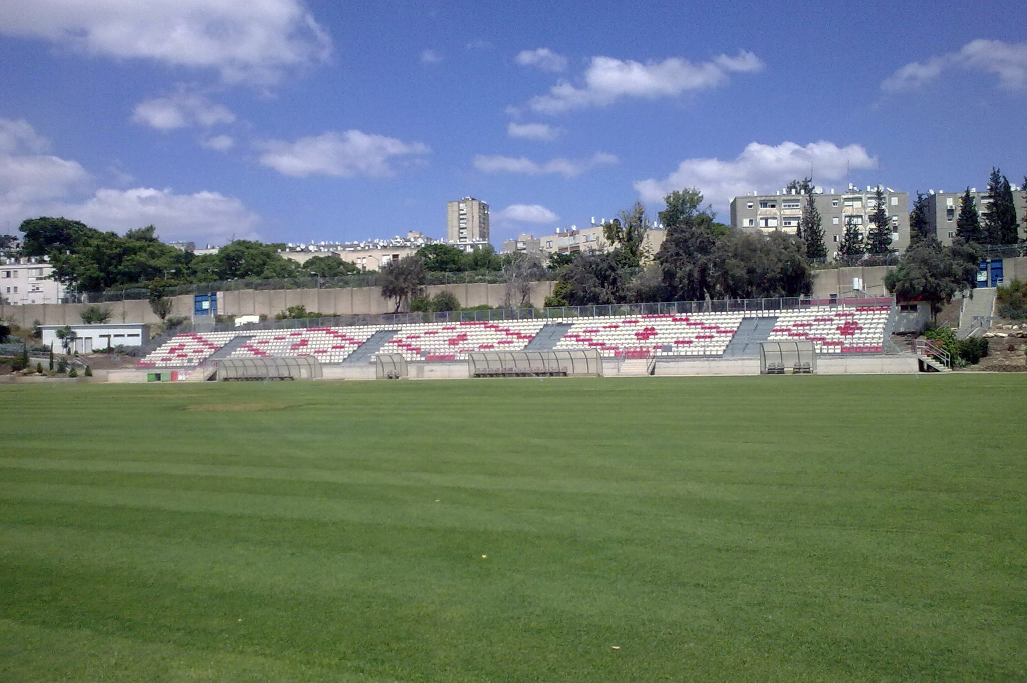 Green Stadium, Nazareth Illit